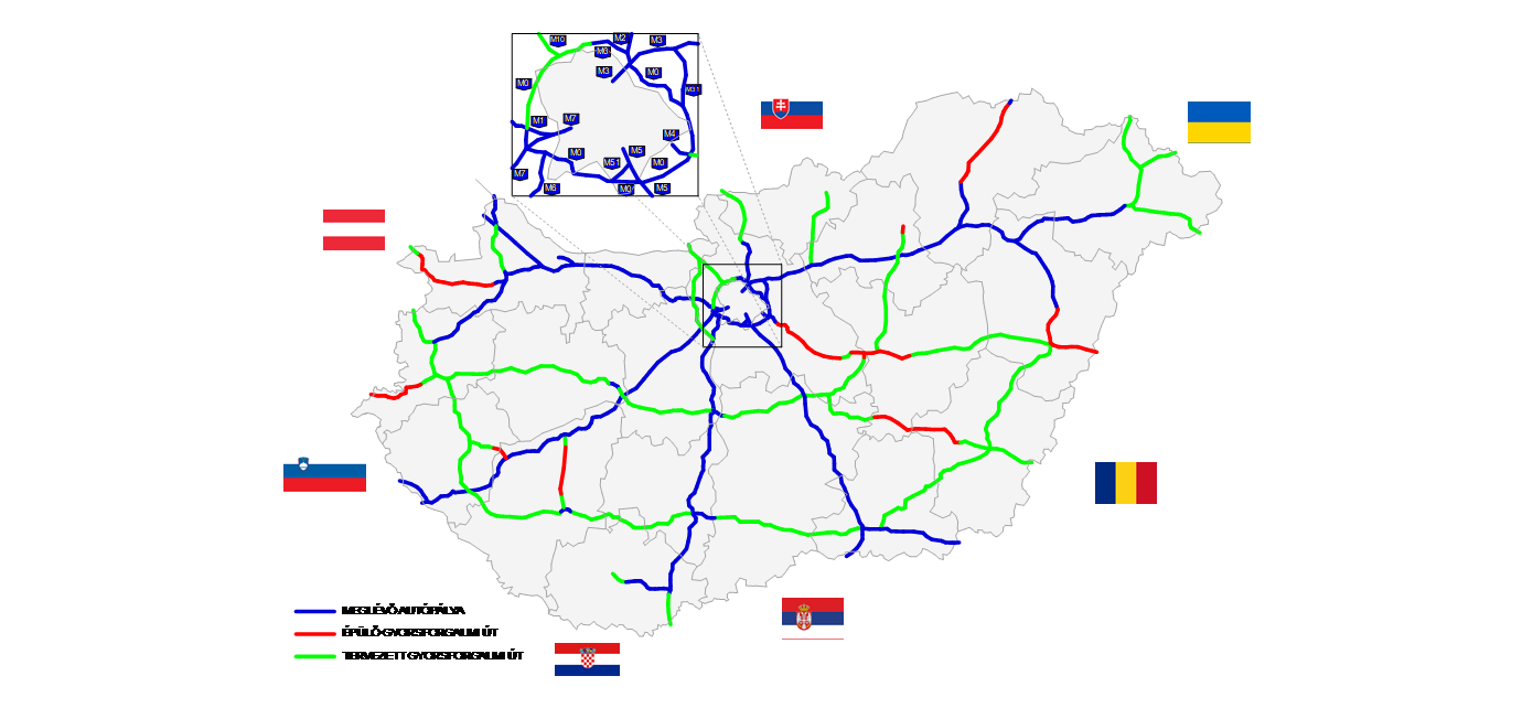 Motorways network in Hungary 03. 2018